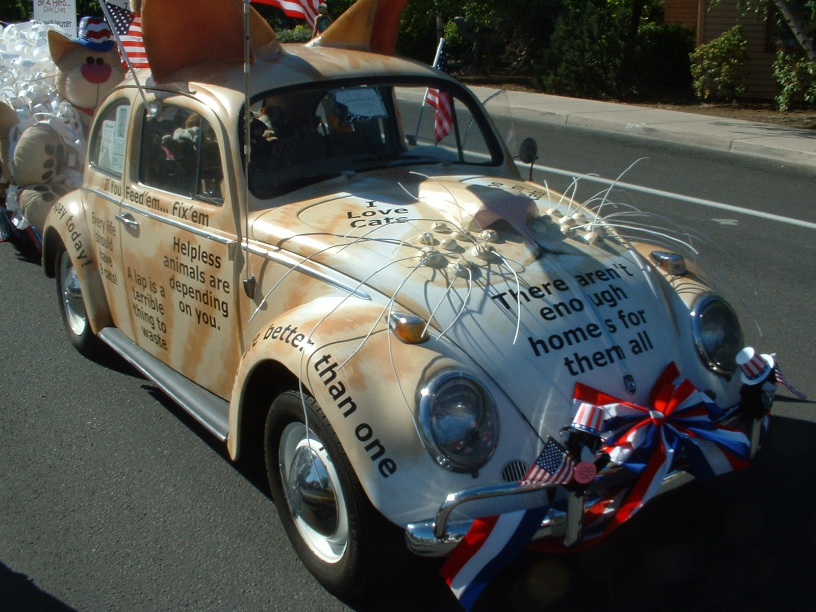 Image taken at the 2005 4th of July parade in Ashland, OR Originally uploaded here